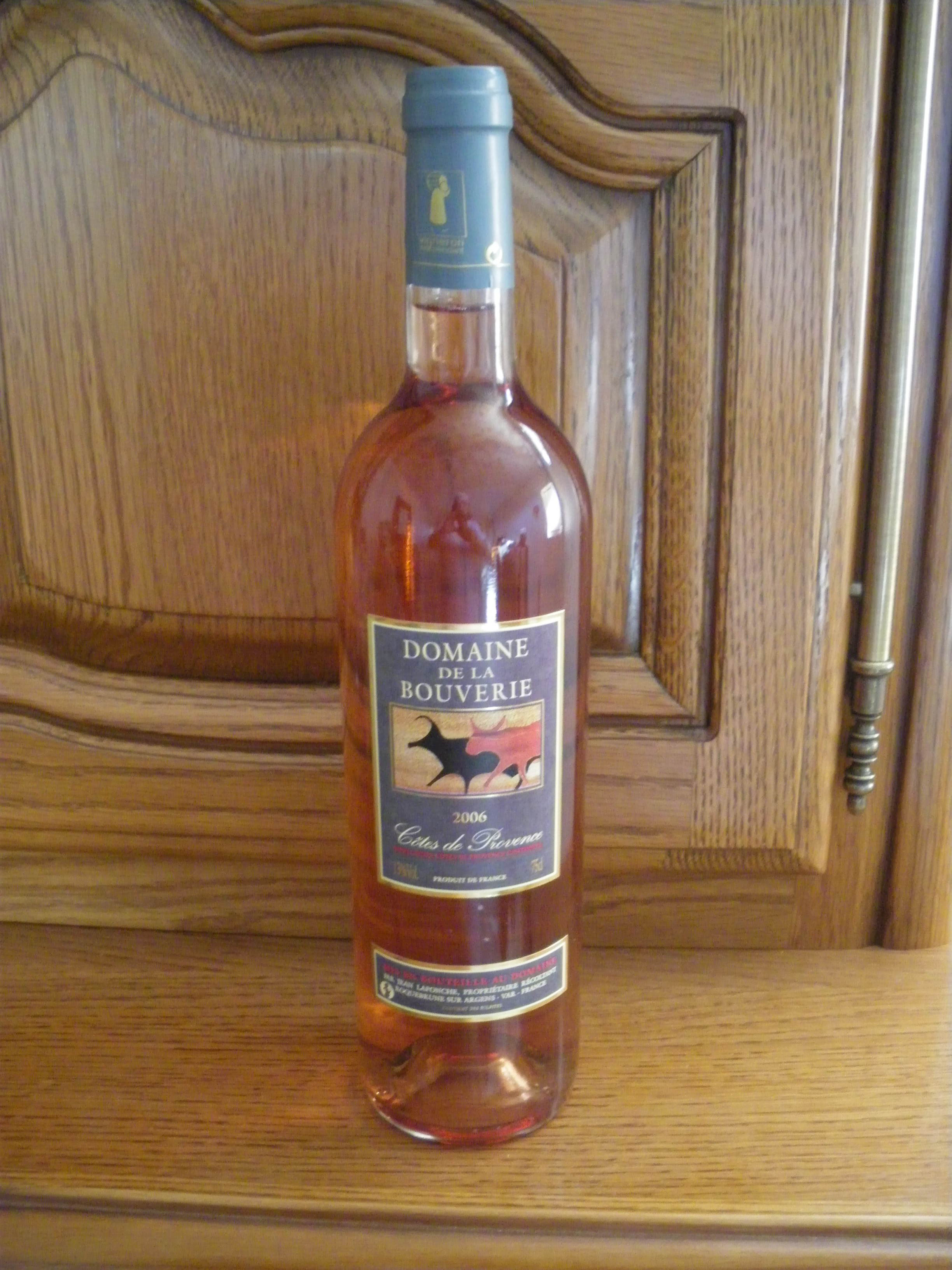 Domaine de la Bouverie, Wine of Var, France